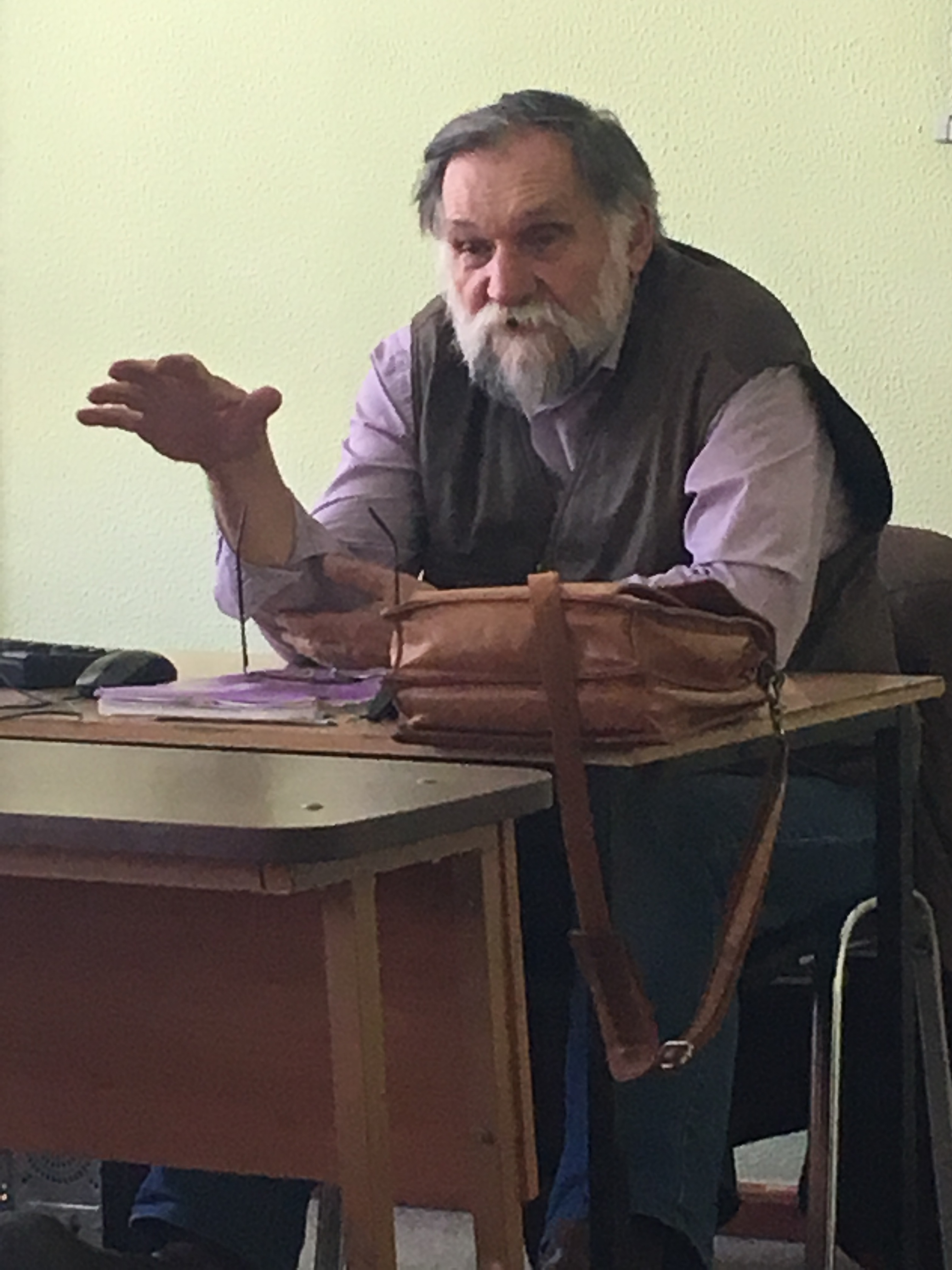 Prof Chuyikov Yuri at ASU LOL